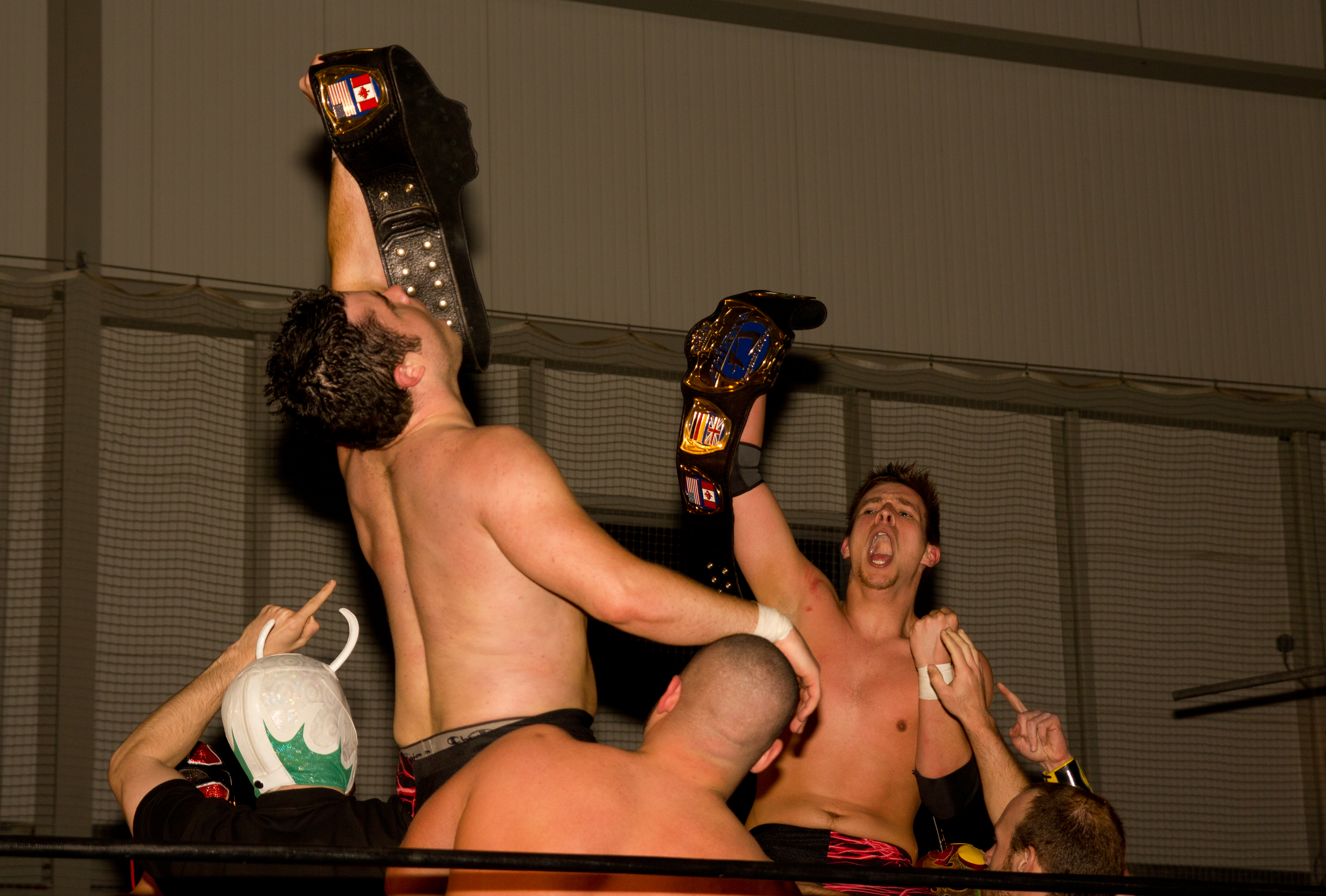 Tag team 3.0 (Shane Matthews left, and Scott Parker) celebrating after winning the Chikara Campeonatos de Parejas